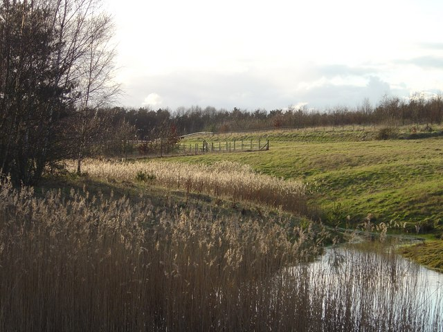 Developing reedbed at Bevercotes Country Park Bevercotes is one of several country parks operated jointly by Notts County Council and the Forestry Commission. It has a surprisingly good species list which keeps growing as the site matures.